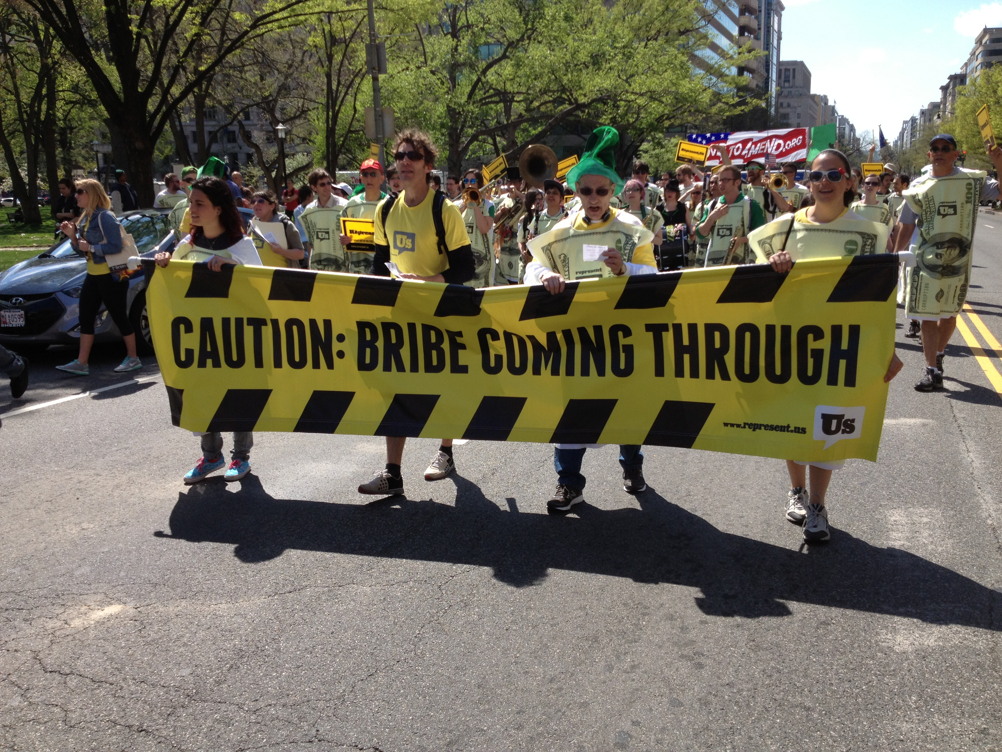 "Caution Bribe Coming Through." March in Washington, DC, April 13, 2013, by Represent.Us